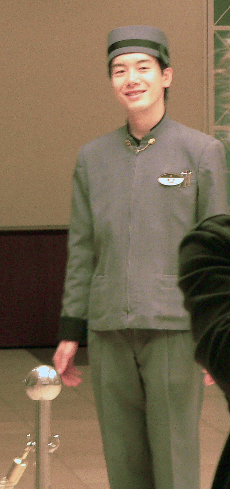 Bellhop in a Japanese hotel.